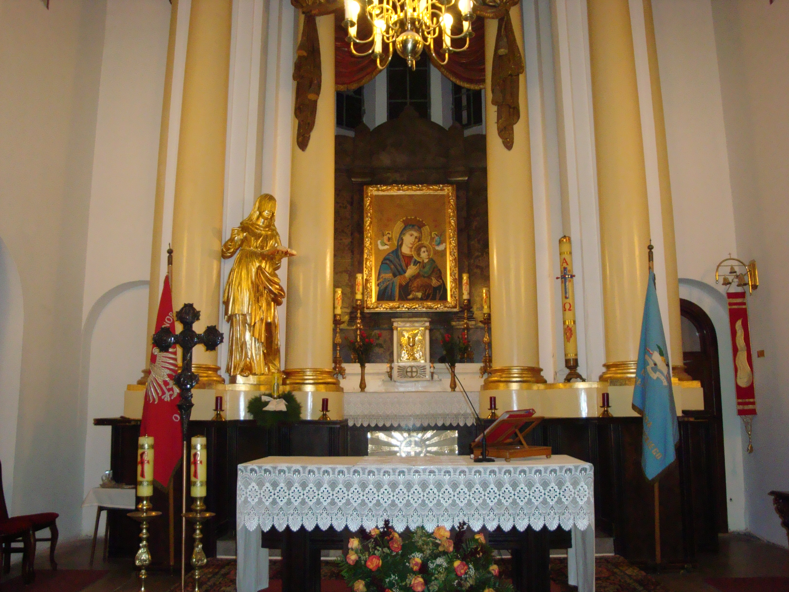 National Church Cathedral Holy Spirit of Warsaw - Altar (Polish Catholic Church) (December 2009)